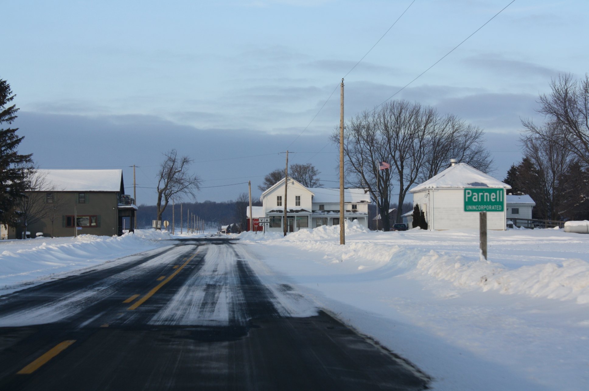 Looking north at the sign for Parnell, Wisconsin on December 31, 2012